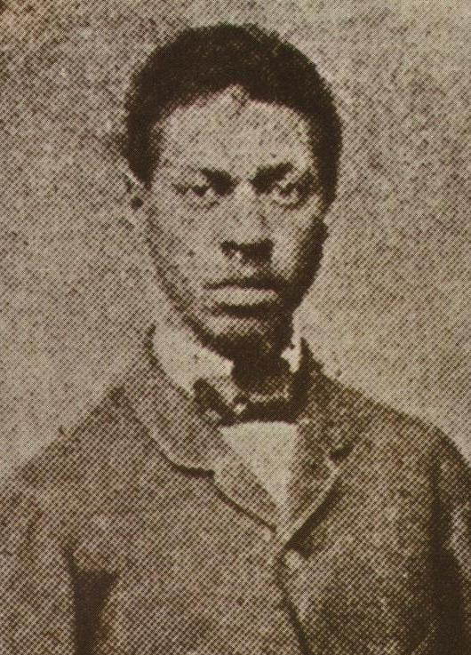 André Rebouças in Paris.